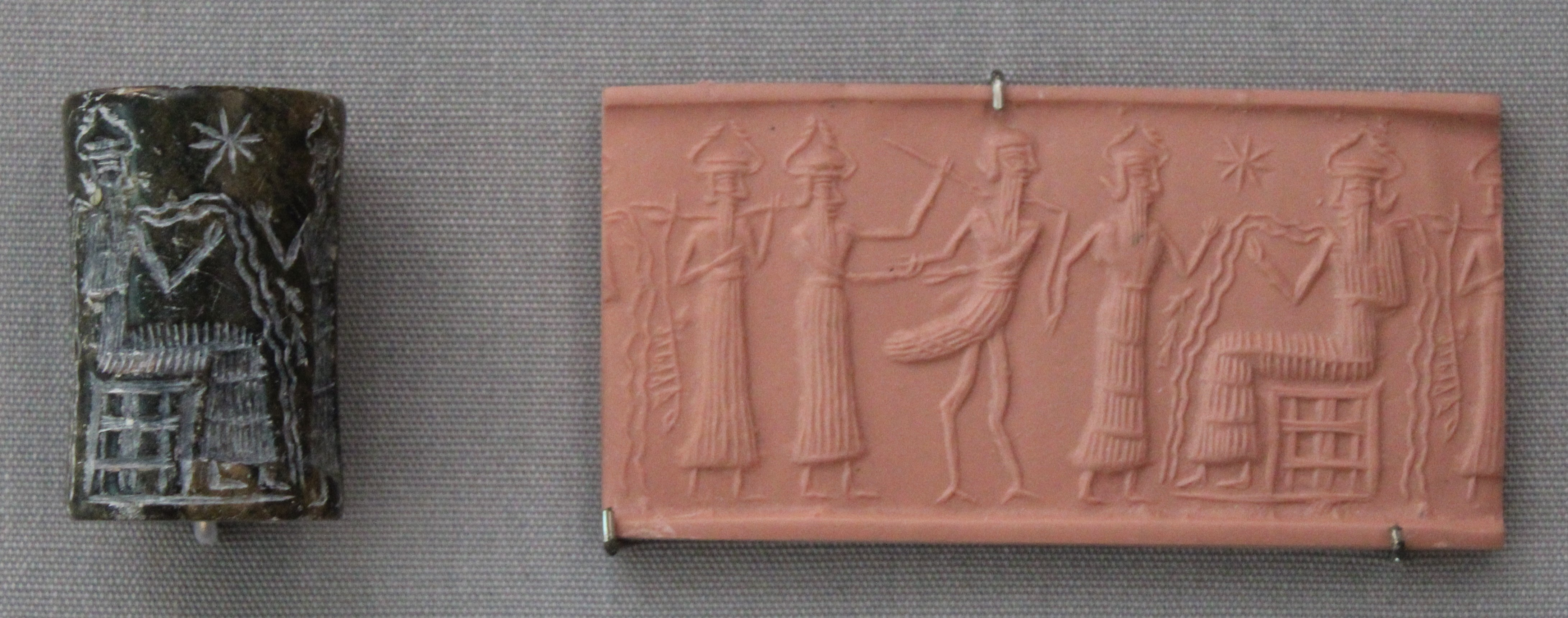 Serpentine cylinder seal. The scene depicts at the right end the god Ea on his throne, with water flowing from his shoulders. Other gods bring to him the Anzu bird, made prisoner. In Mesopotamian mythology Anzu is responsible of the robbery of the Tablets of Destiny. ME 103317.